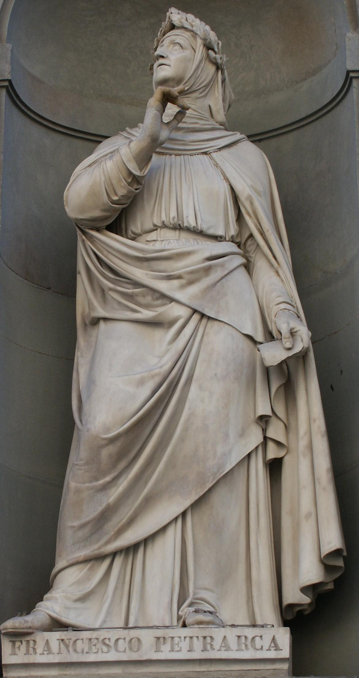 Francesco Petrarca or Petrarch (20 July 1304 – 19 July 1374) was an Italian scholar, poet, and early humanist. This 19th century statue stands on the facade of the Uffizi palace, in Florence, Italy. Photo shot by Frieda (dillo a Ubi) on sept 18 2004.